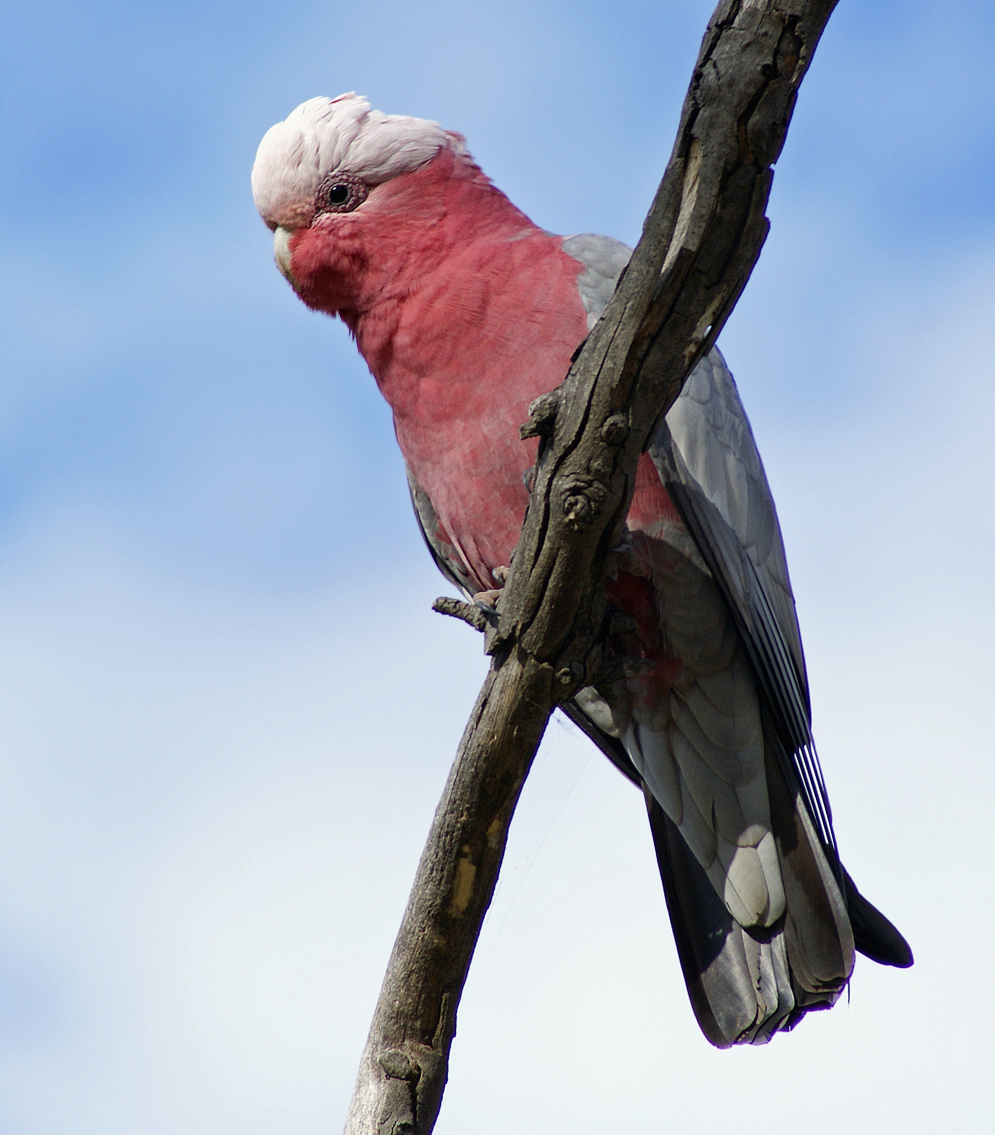 An adult Galah (also known as the Rose-breasted Cockatoo, Galah Cockatoo, and Roseate Cockatoo) in Wamboin, NSW, Australia.